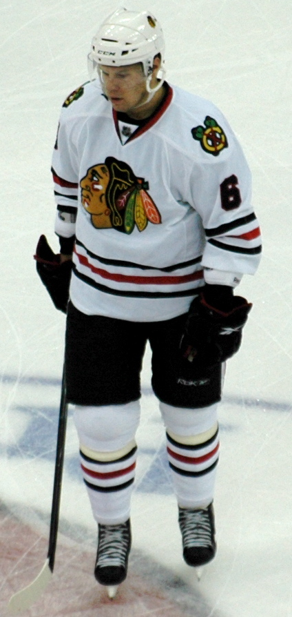 Jordan Hendry plays with Blackhawks in New Jersey